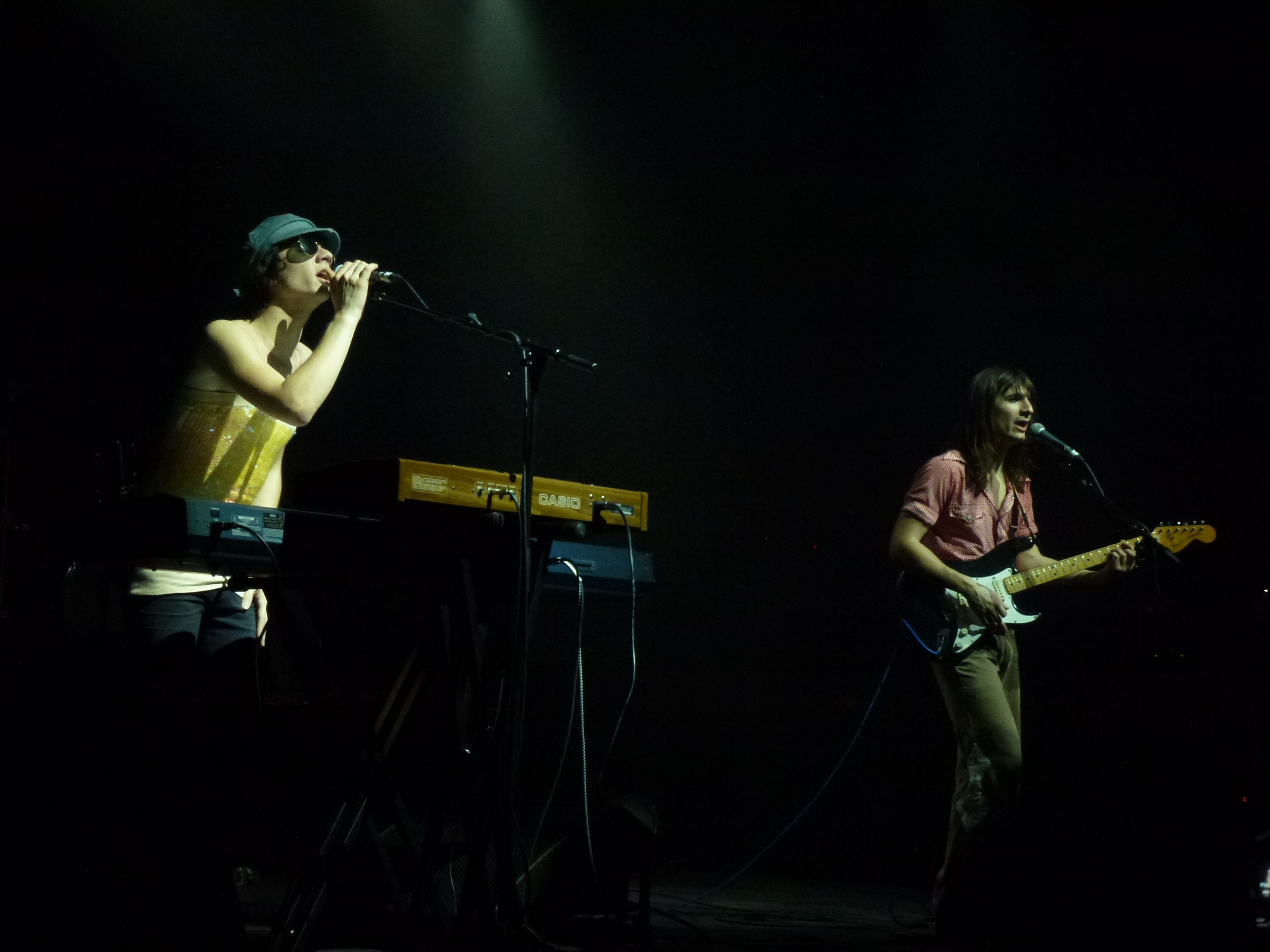 The Lemon Twigs at Kentish Town Forum, London 2017